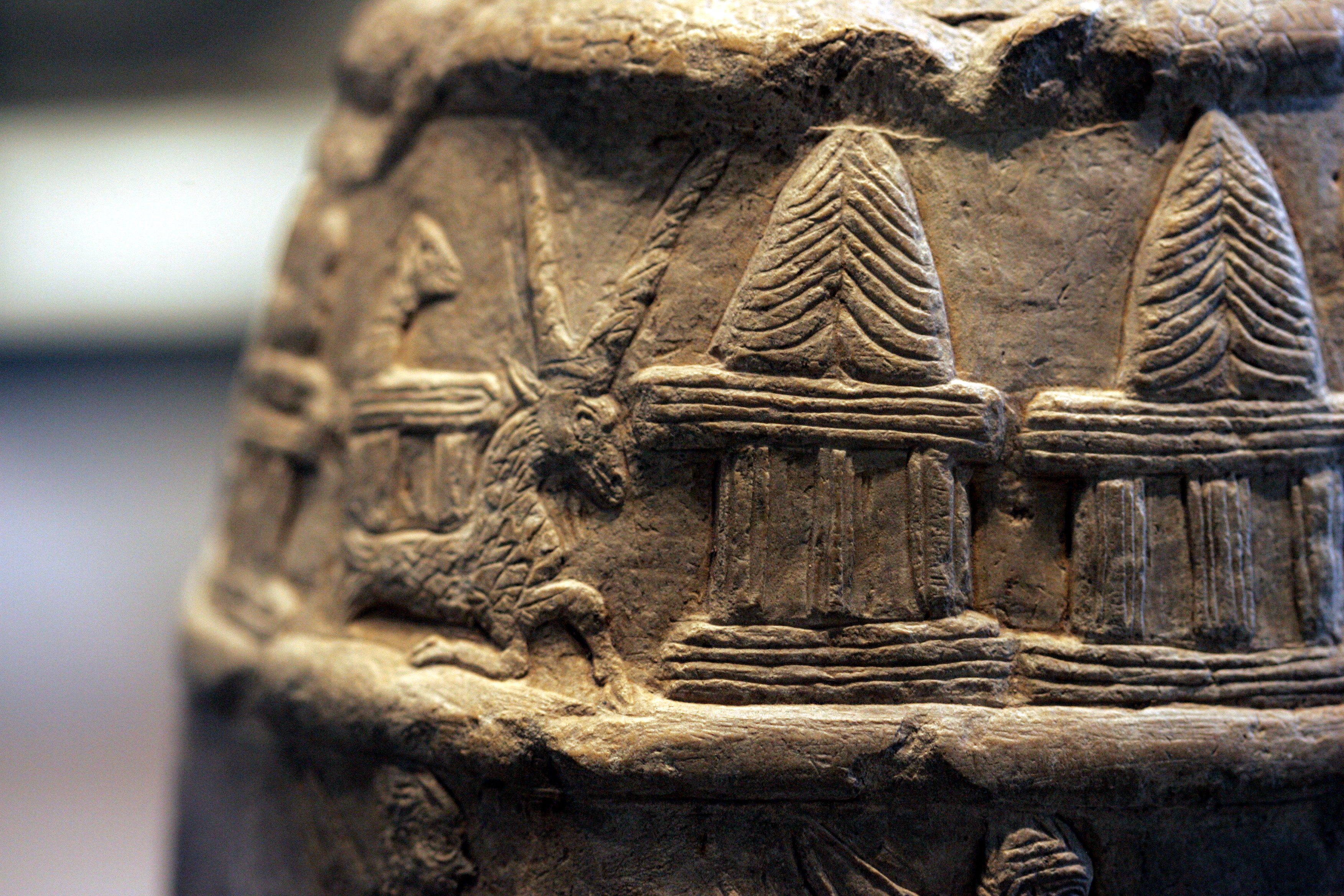 ArtistUnknownDescription Unfinished kudurru (boundary marker) with a horned serpent (symbol of Marduk) around pillar at bottom. The most proeminent gods are featured as symbols. The space for the inscription was left unused. [1] White limestone Kassites era, found in Susa Found by J. de Morgan Current location (Inventory)Louvre Museum Native nameMusée du LouvreLocationParisCoordinates48° 51′ 37″ N, 2° 20′ 15″ E Established1793Website control : Q19675 VIAF: 257711507 ISNI: 0000 0001 2260 177X ULAN: 500125189 LCCN: n80020283 NLA: 35912436 WorldCat Richelieu Rez-de-chaussée Mésopotamie, IIe et Ier millénaires avant J.-C. Salle 3 [2]Accession numberSb 25Source/PhotographerRama Unfinished kudurru (boundary marker) with a horned serpent (symbol of Marduk) around pillar at bottom. The most proeminent gods are featured as symbols. The space for the inscription was left unused. [1] White limestone Kassites era, found in Susa Found by J. de Morgan